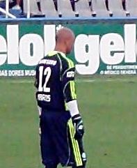 It's a picture of Marcos Roberto Silveira Reis, aka 'São Marcos', footballer from Sociedade Esportiva Palmeiras.